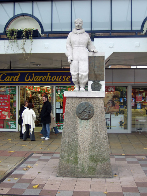 Statue of Amy Johnson, Prospect Street, Hull, East Riding of Yorkshire, England. Amy Johnson, famous Aviatrix, was born in Hull. For a photo of her birthplace see TA0728 : Amy Johnson's Birthplace.